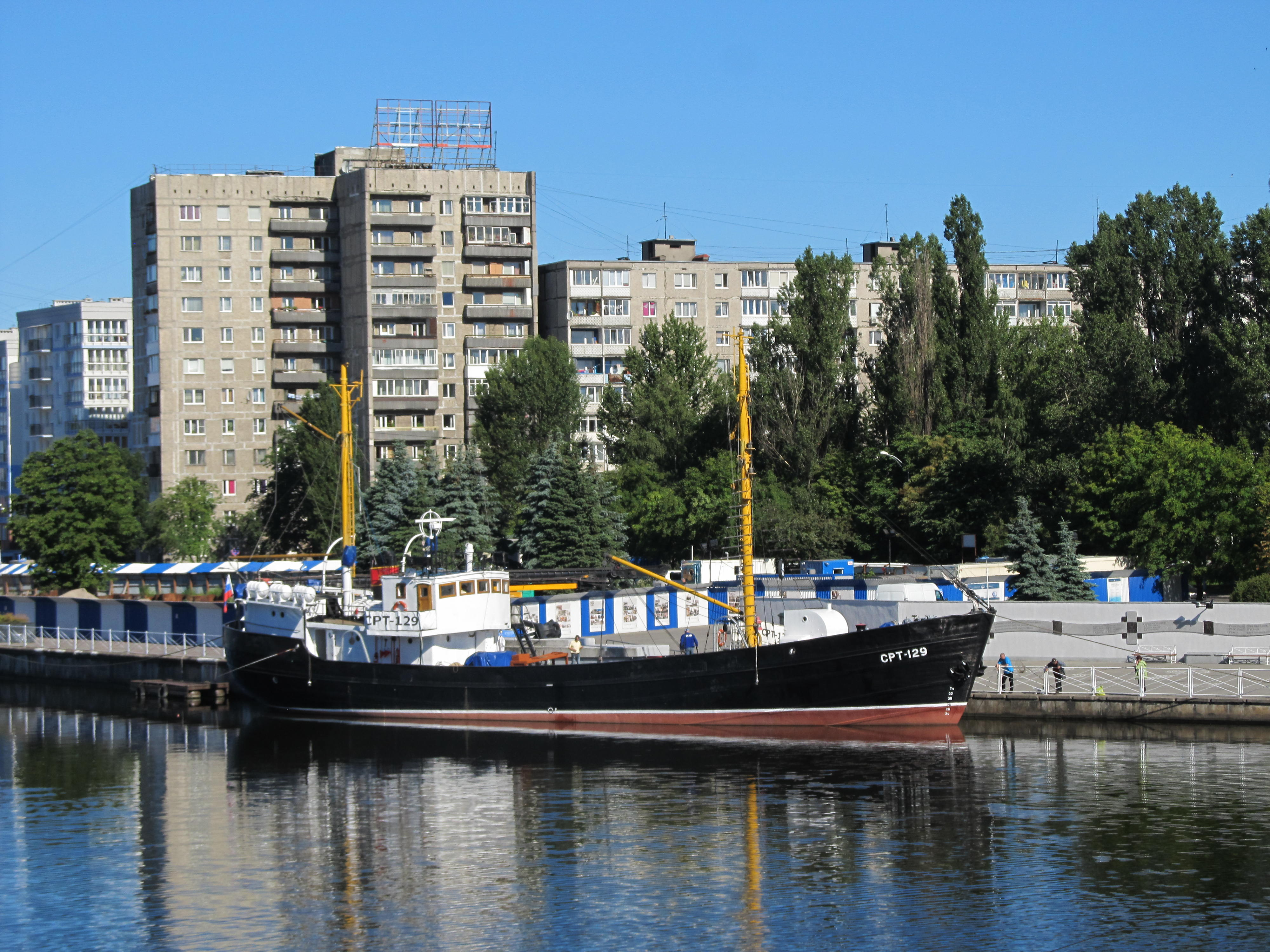 SRT-129 Museum of the World Ocean (Kaliningrad, Russia)